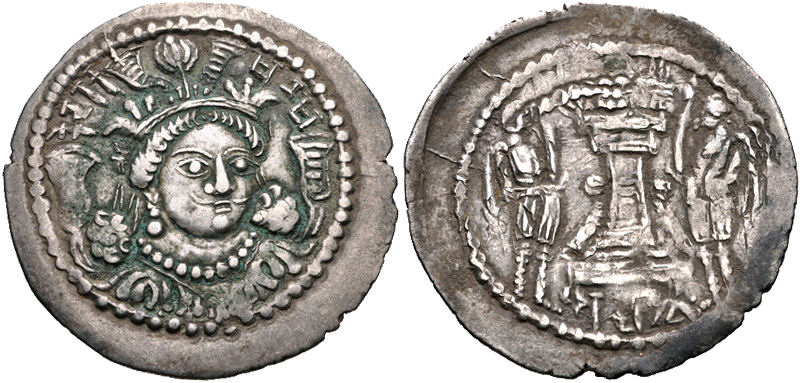 Kidara coin. Circa 425-457. AR Drachm (29mm, 3.76 g, 3h). Mint C in Gandhara. Crowned bust facing slightly right / Fire altar flanked by attendants.